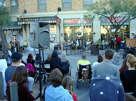 Onlookers watch a reenactment of the fire at the Hotel Congress during Dillinger Days. The fire indirectly resulted in the capture of John Dillinger and his gang.